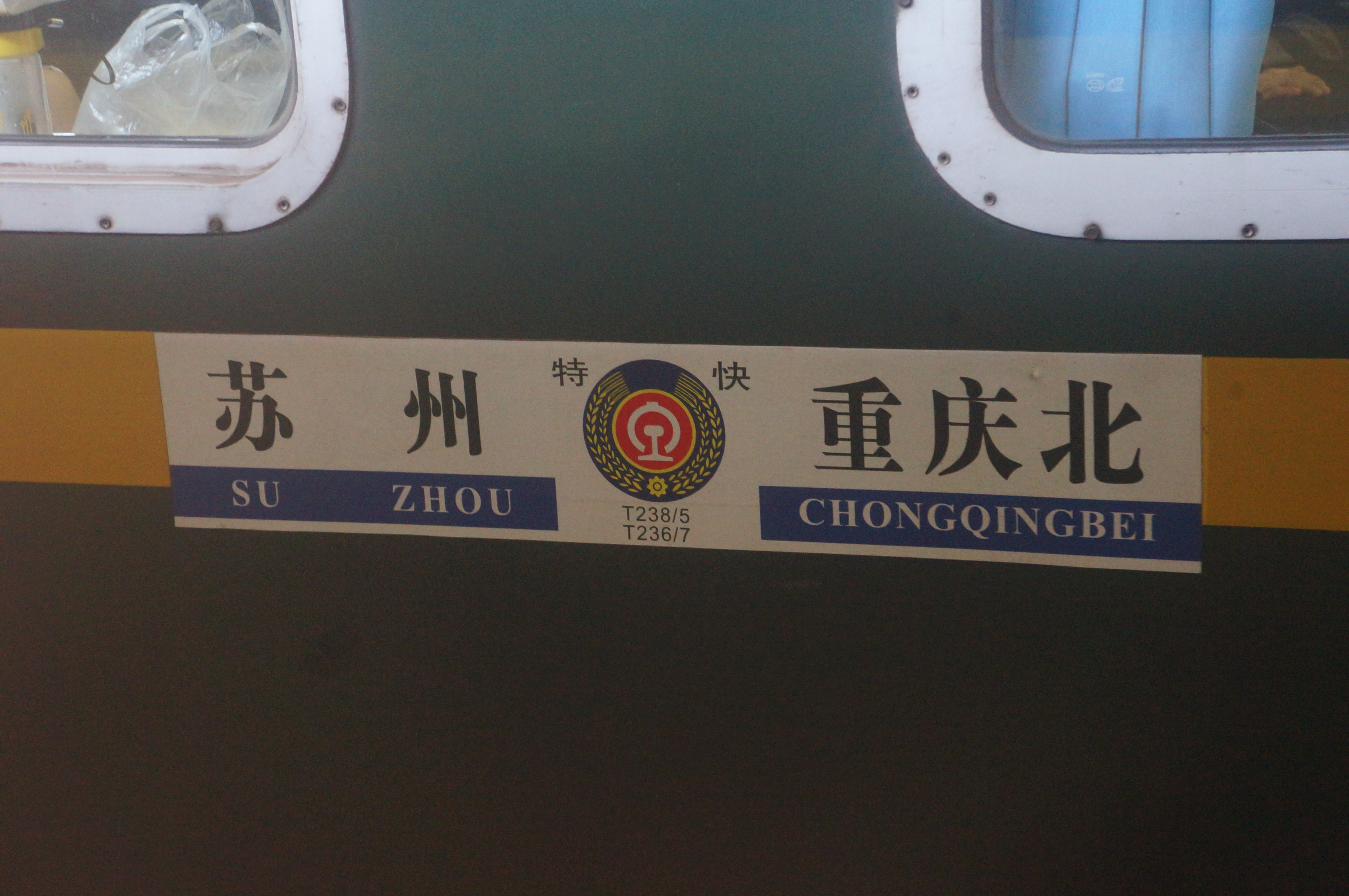 Taken at Nanjing Station